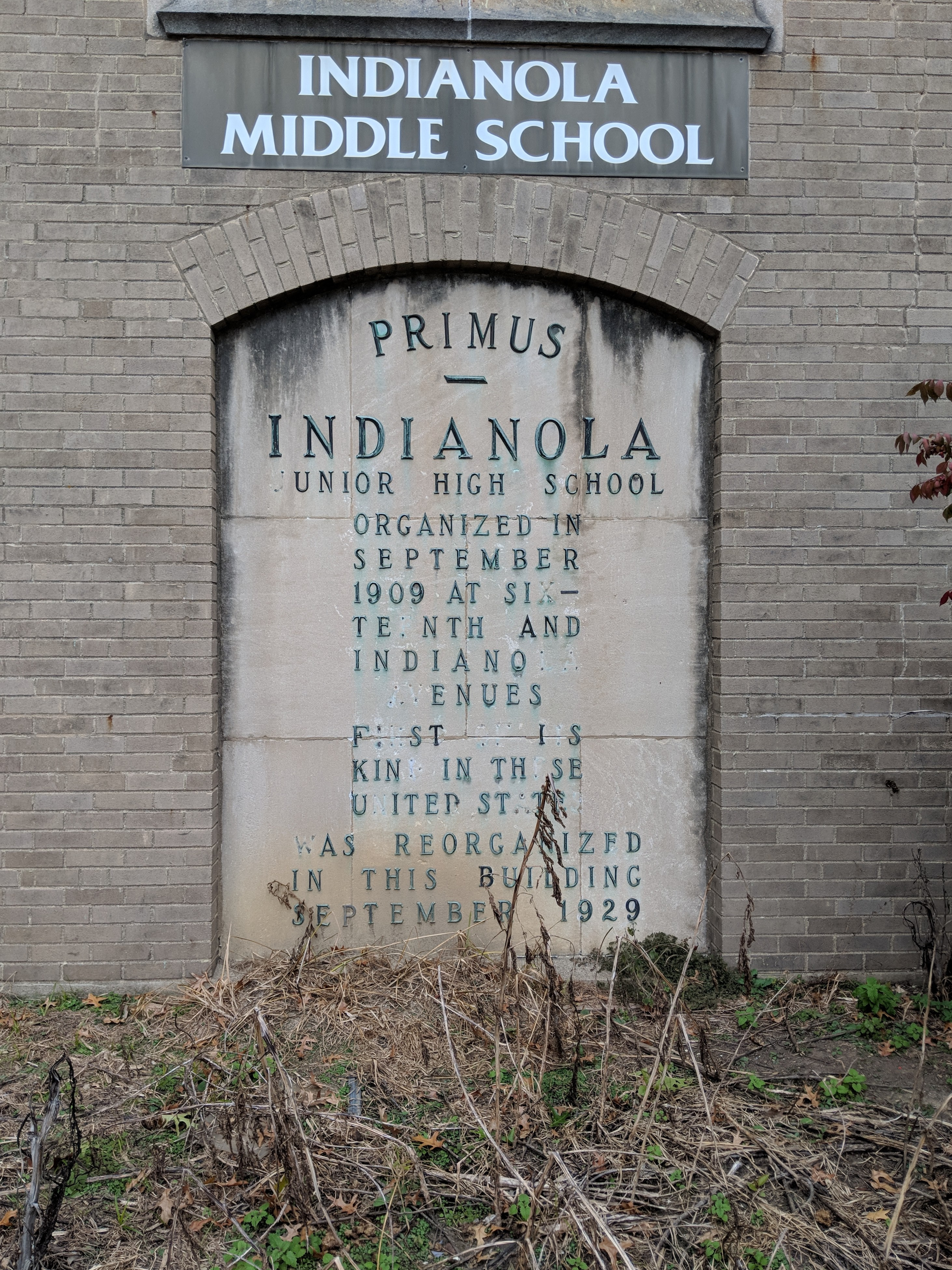 Indianola Junior High School listed on the National Register of Historic Places (#80003000)